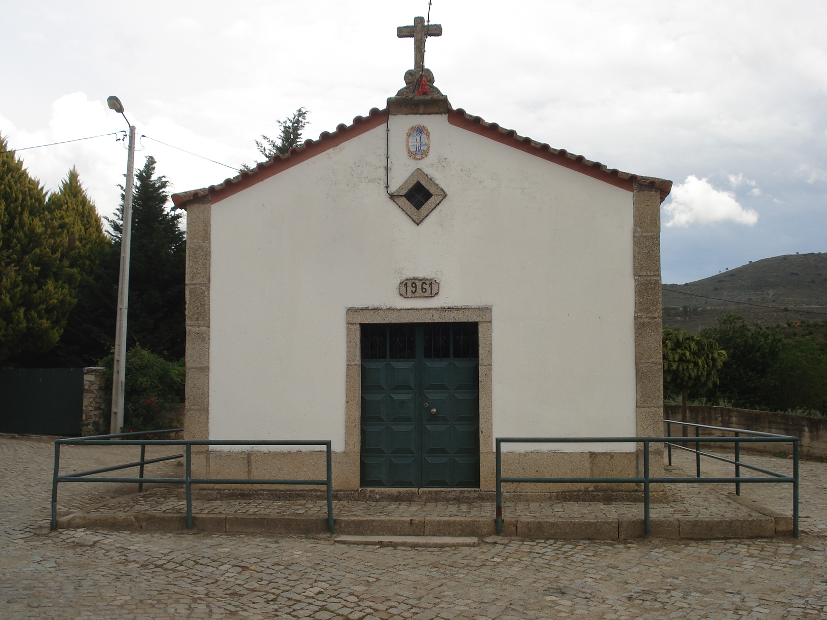 chapel on my village